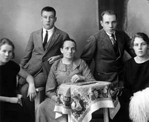 From left to right: Saara, Martti, Matilda, Paavo and Siiri Nurmi in their family home on Jarrumiehenkatu 4 in Turku, Finland.